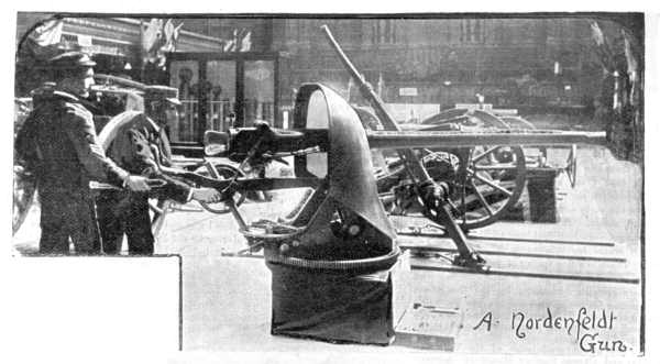 A Nordenfelt Gun. Two men in position to fire the gun; exhibition of naval and military weapons held at the Melbourne Town Hall.